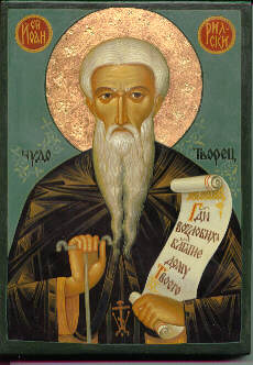 John of Rila (born 876 – died c. 946), Bulgarian Christian saint.